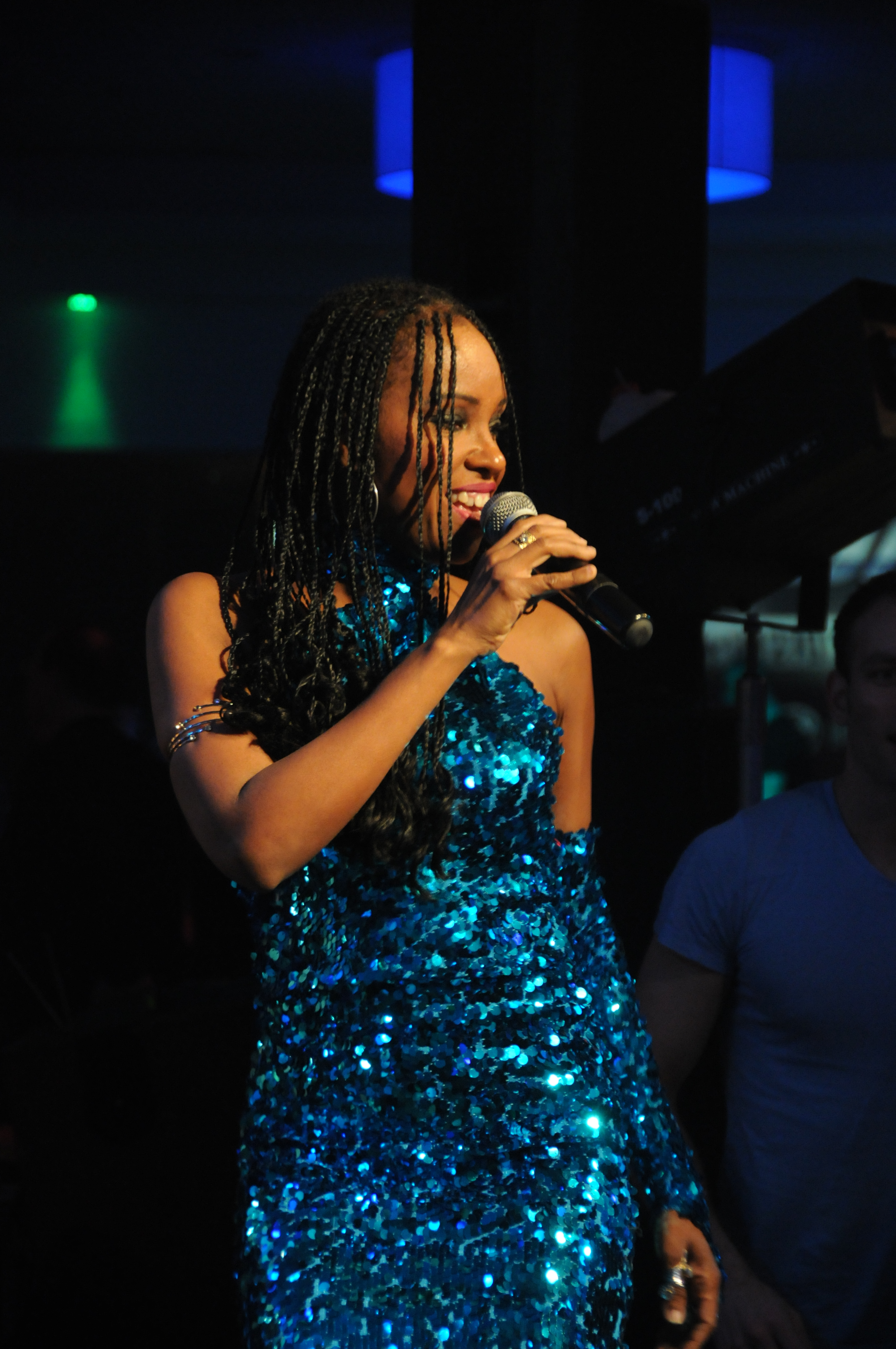 Elisete, the Brazilian-Israeli singer in a show in Haifa, Israel.